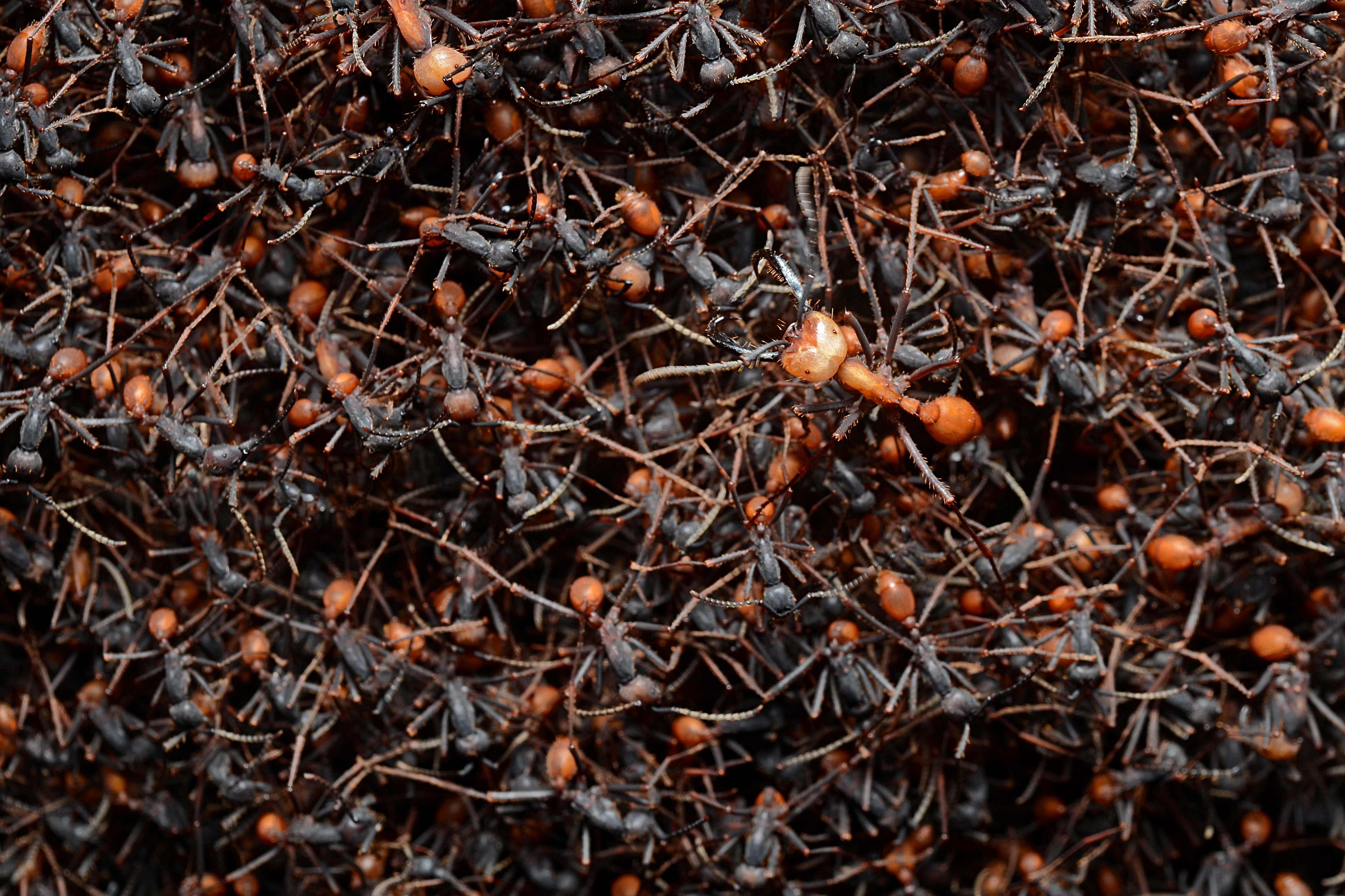 Army ant bivouac